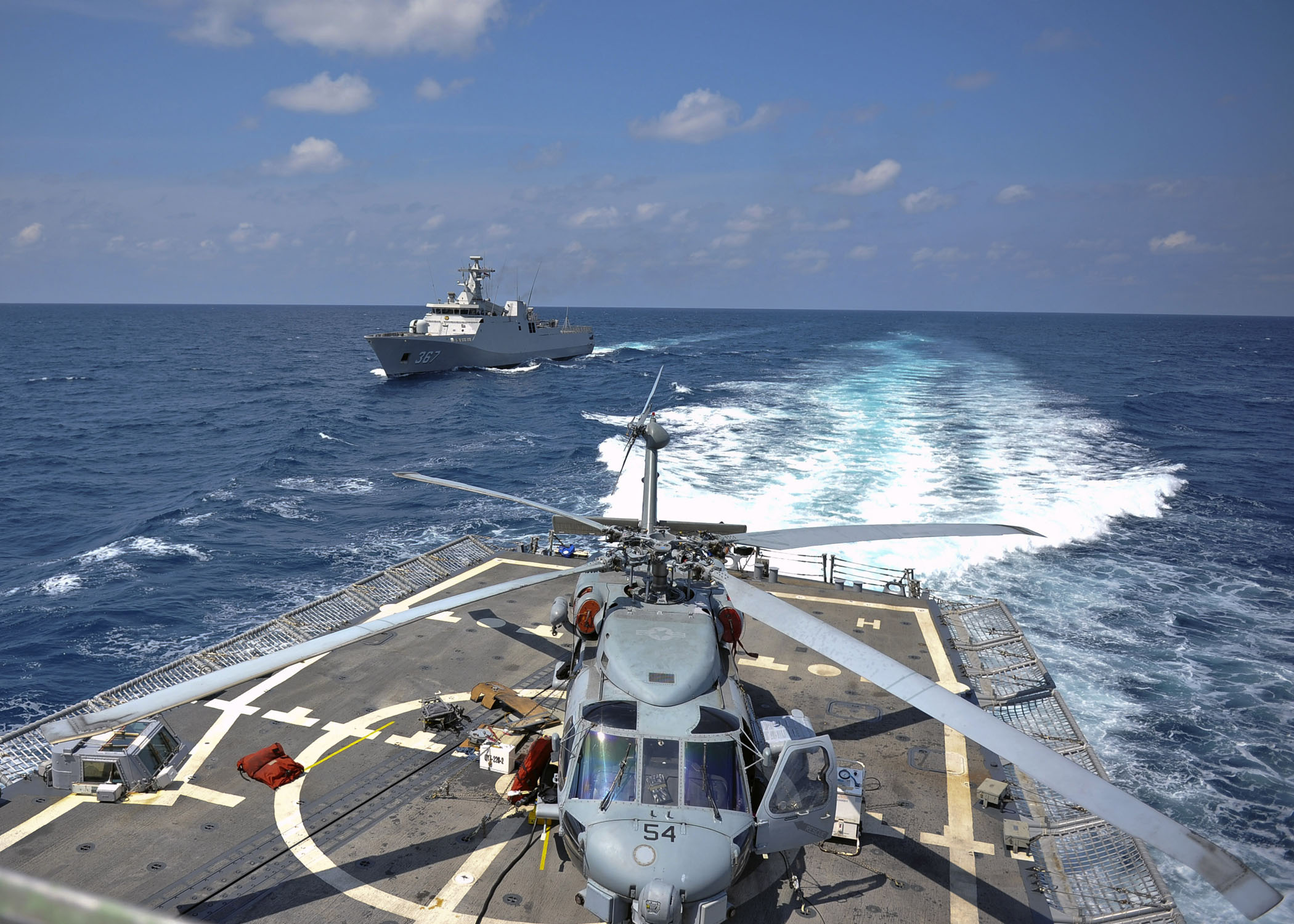 JAVA SEA (June 5, 2012) The Indonesian navy Sigma-class corvette KRI Sultan Iskandar Muda (SIM 367), left, is underway alongside the guided-missile frigate USS Vandergrift (FFG 48) during a replenishment approach exercise in the U.S. 7th Fleet area of responsibility. Vandergrift is underway participating in the at-sea phase of Cooperation Afloat Readiness and Training (CARAT) 2012 Indonesia. CARAT 2012 is a nine-country, bilateral exercise between the United States and Bangladesh, Brunei, Cambodia, Indonesia, Malaysia, Singapore, the Philippines, Thailand, and Timor Leste and is designed to enhance maritime security skills and operational cohesiveness among participating forces. (U.S. Navy photo by Mass Communication Specialist 3rd Class Gregory A. Harden II/Released) 120605-N-HI414-170 Join the conversation navylive.dodlive.mil